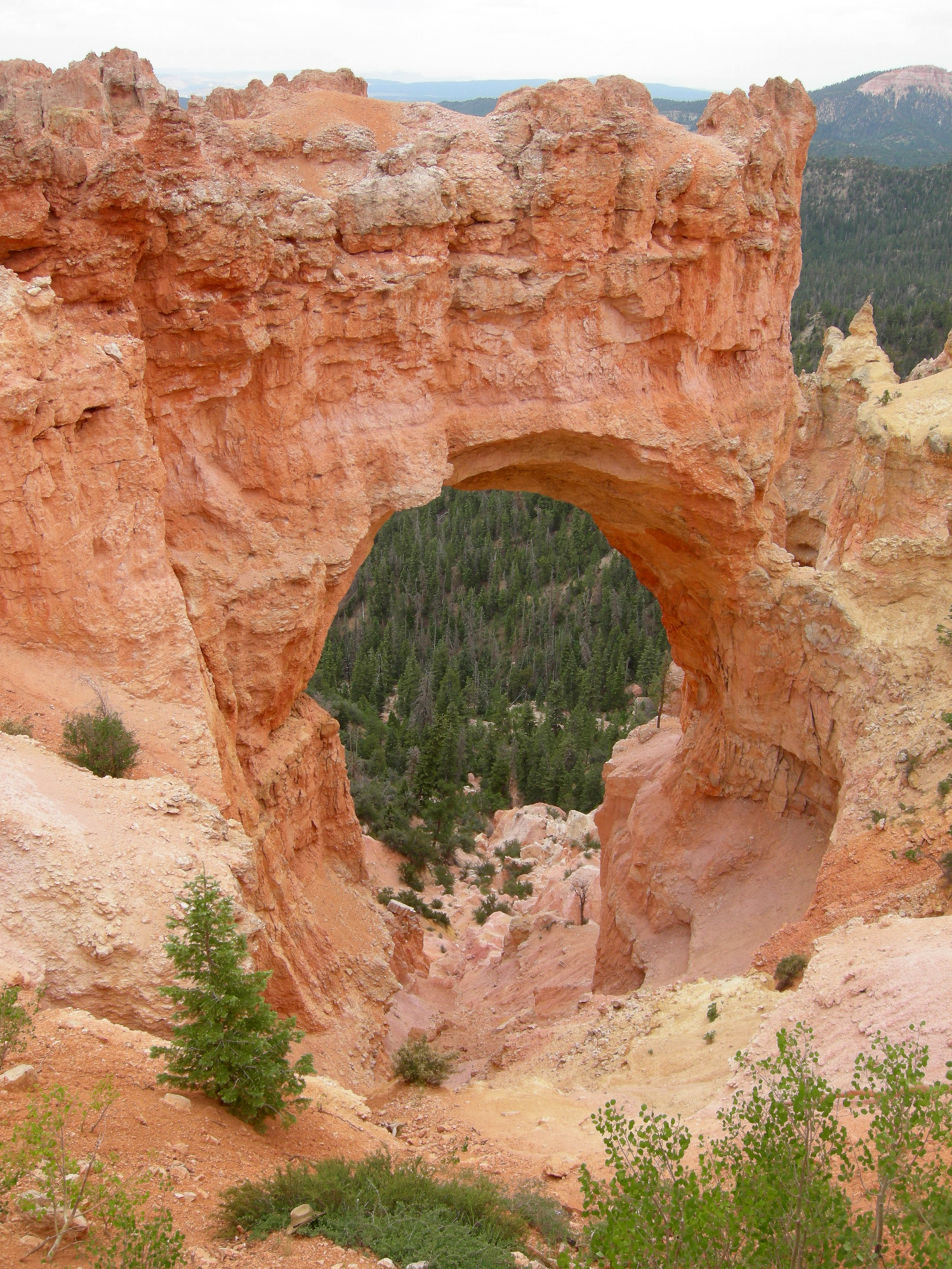 Natural Bridge at Bryce Canyon National Park. It is actually an arch.